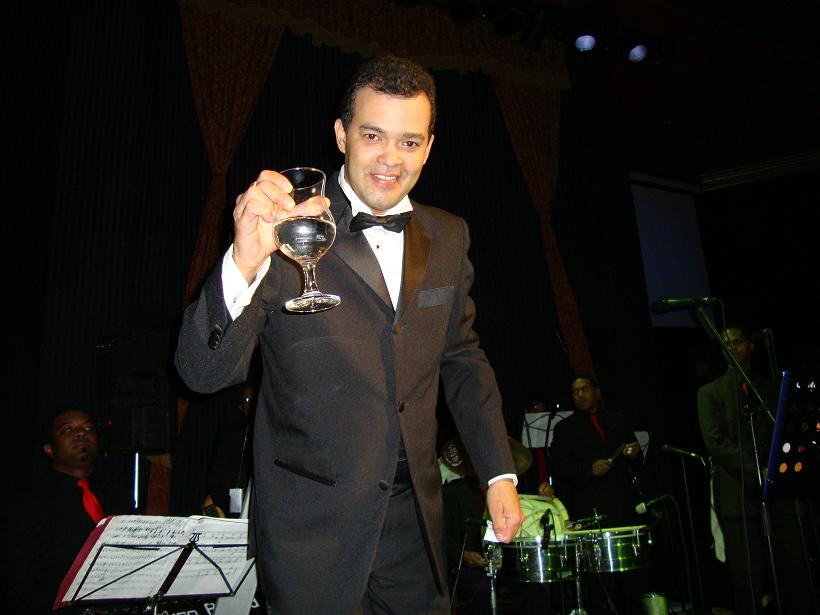 Alex Bueno en vivo